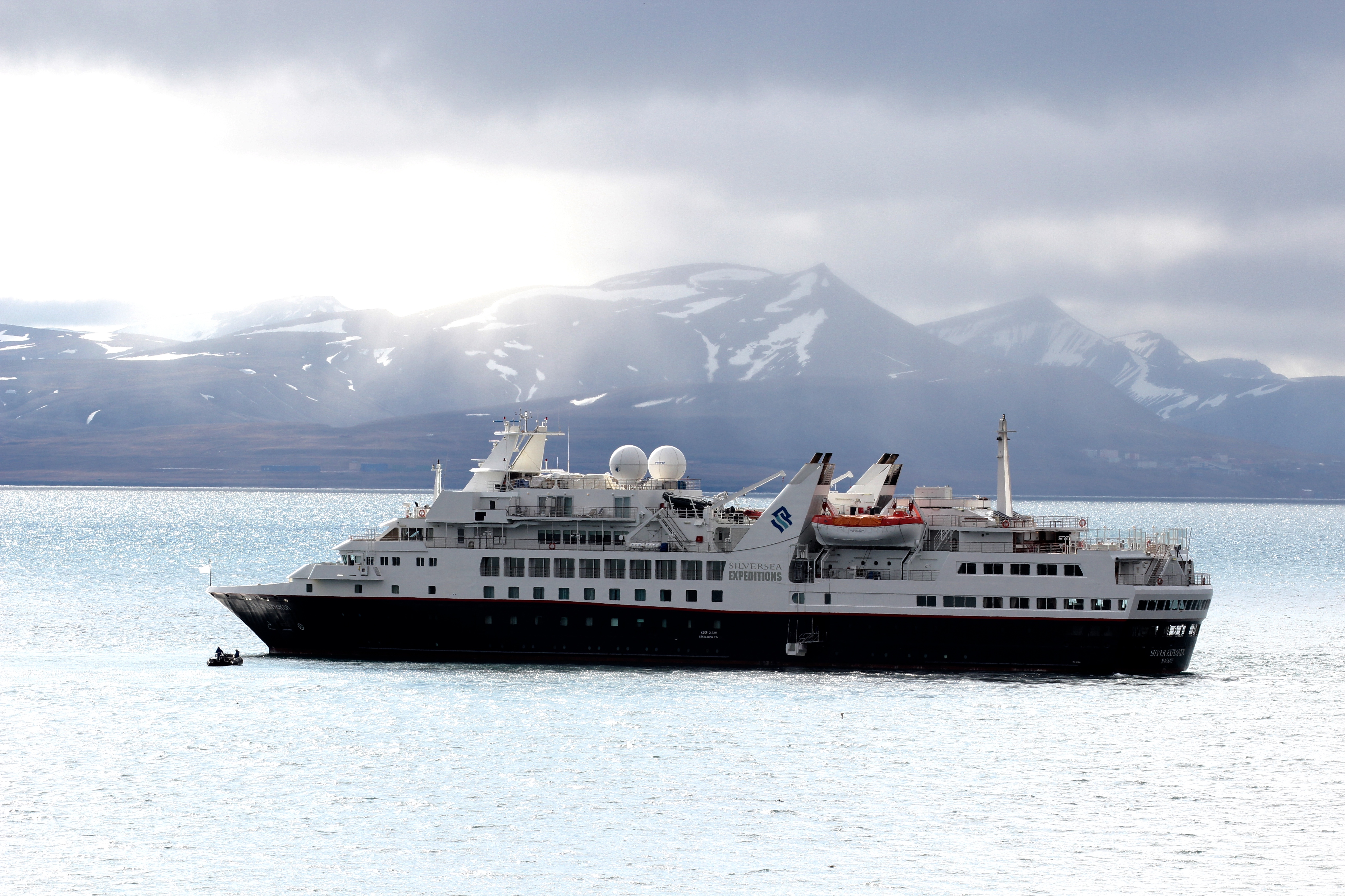 Pictures taken on my Silversea Silver Explorer Arctic cruise. For more on the cruise and dates visit bit.ly/ArcticCruise